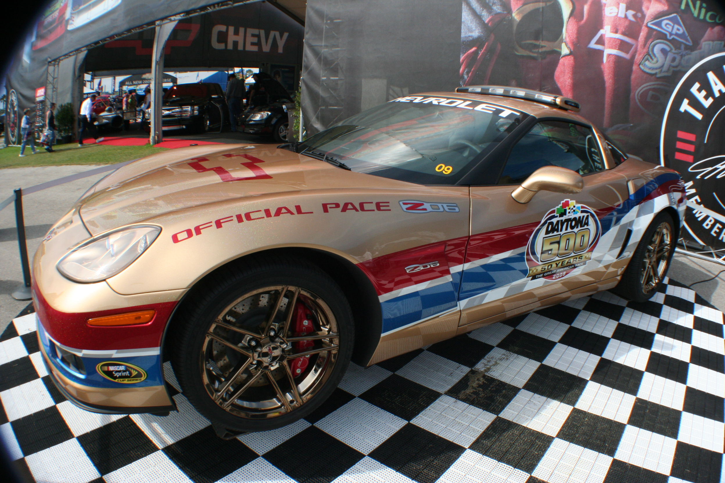 Shot by The Daredevil at Daytona during Speedweeks 20082008 Chevy Corvette Daytona 500 pace car